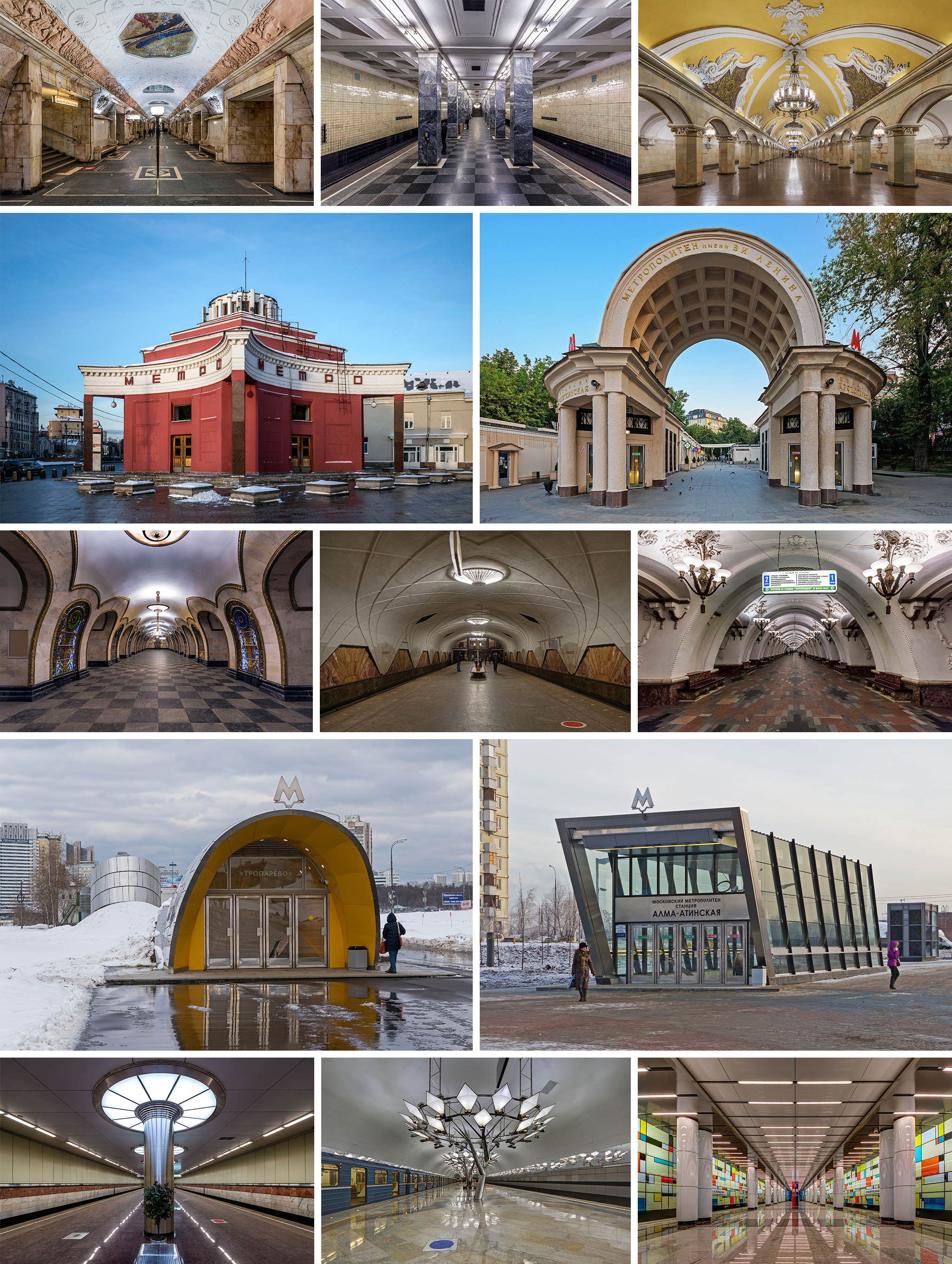 Stations of Moscow Subway